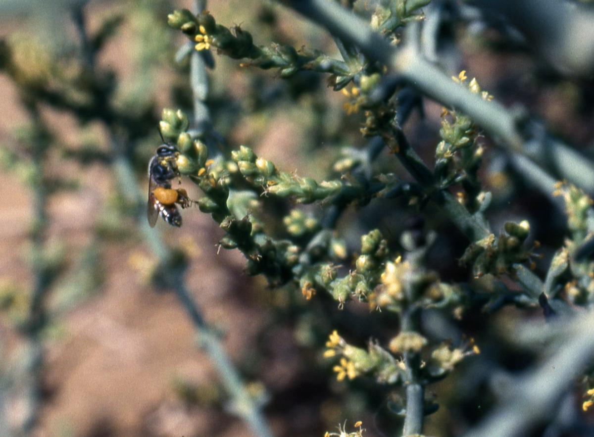 Salsola stocksii (Synonym Haloxylon stocksii) with wild bee (Hymenoptera) collecting pollen. - Pakistan, Karachi, University campus